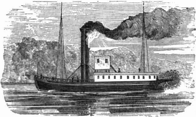 Lloyd's steamboat directory, and disasters on the western waters..., Philadelphia: Jasper Harding, p. 46.